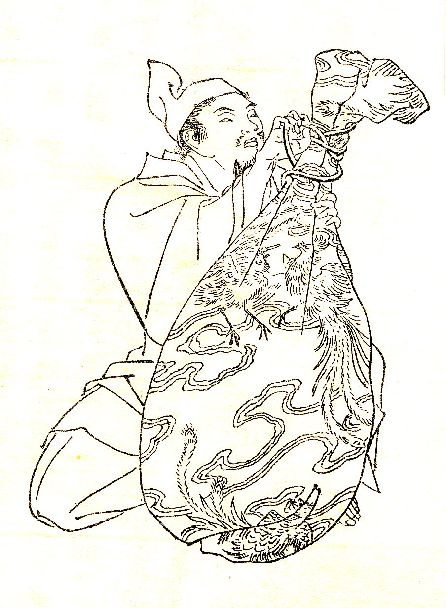 Fujiwara no Sadatoshi(藤原貞敏)was a Japanese court noble in the Heian period.This picture was drawn by Kikuchi Yosai（菊池容斎） who was a painter in Japan.